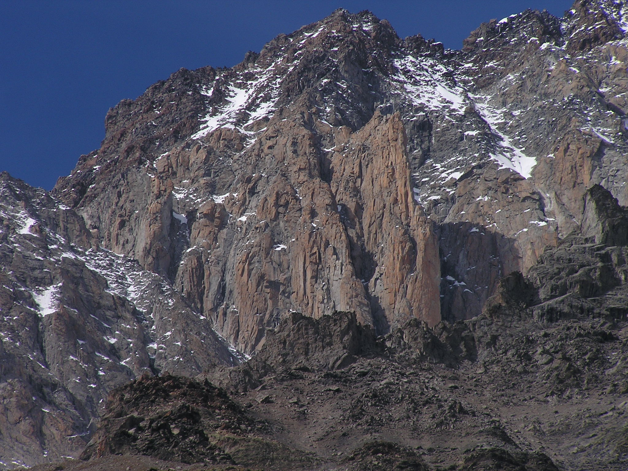 This is a photo of a monument which is part of cultural heritage of Italy.